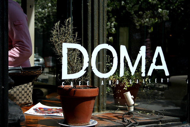 The Doma Cafe from the outside, at Seventh Avenue South, New York City